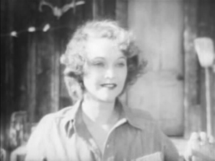 Sheila Terry in The Lawless Frontier, a 1934 film by Robert N. Bradbury